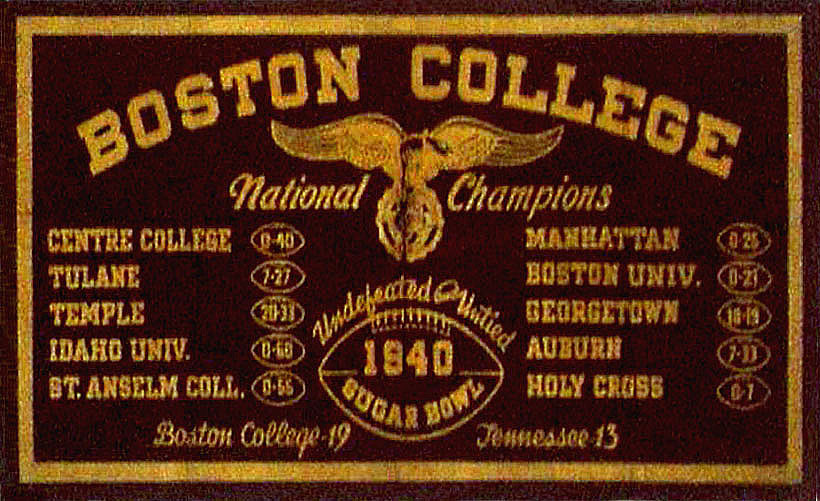 Boston College National Championship banner, 1940 Photo by author